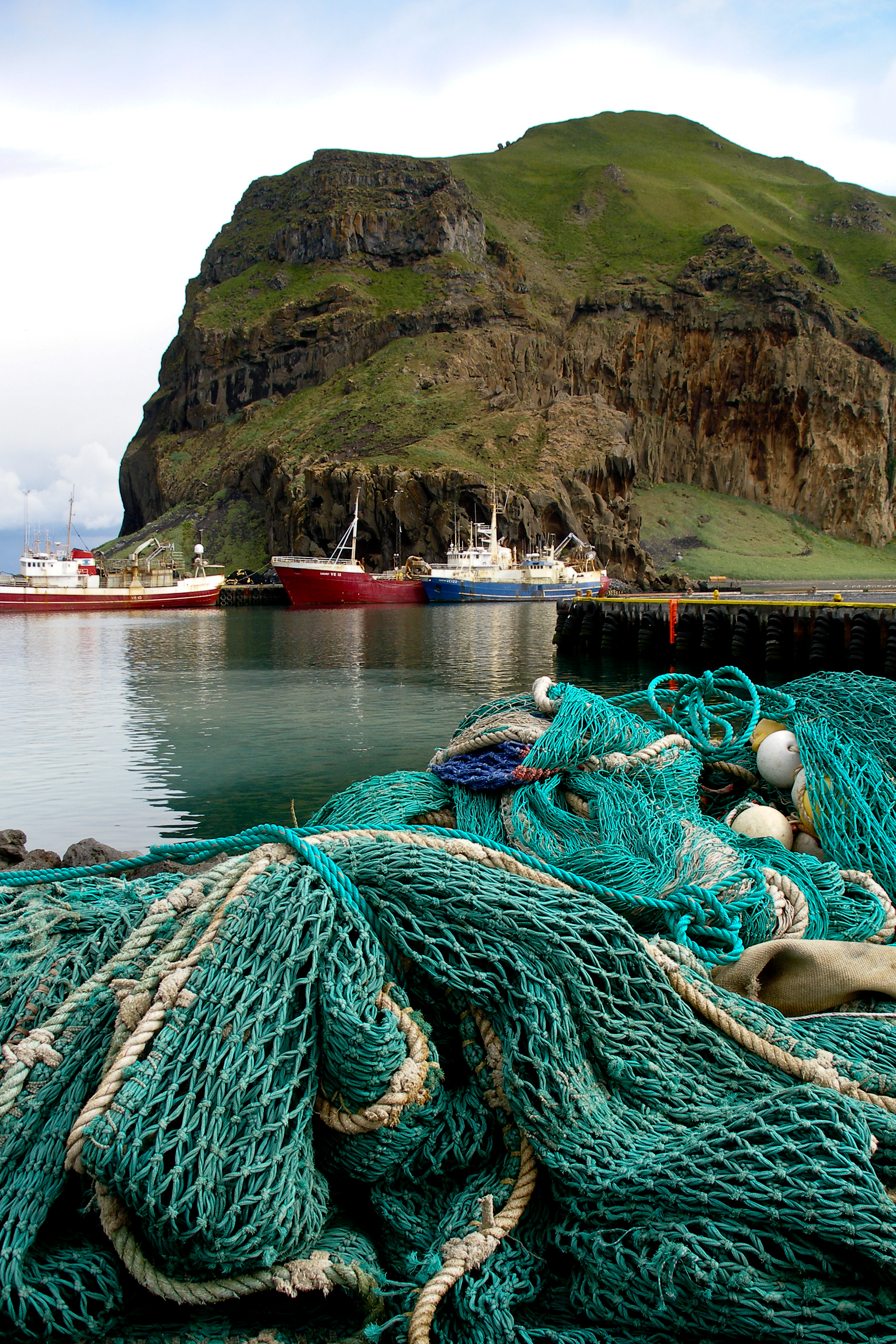 Iceland